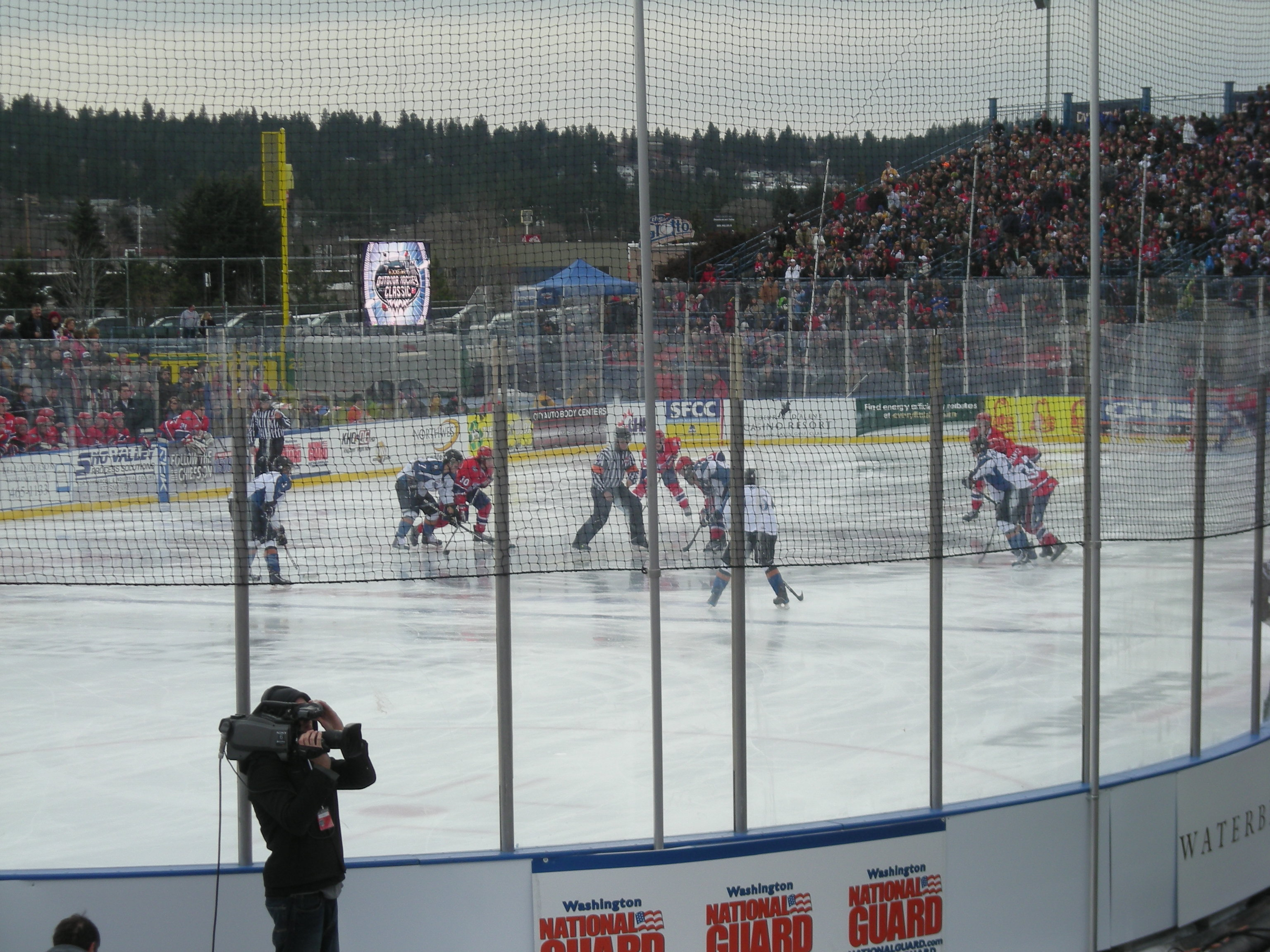 Photo of the Spokane Chiefs playing Kootenay in the WHL's first-ever outdoor hockey game.